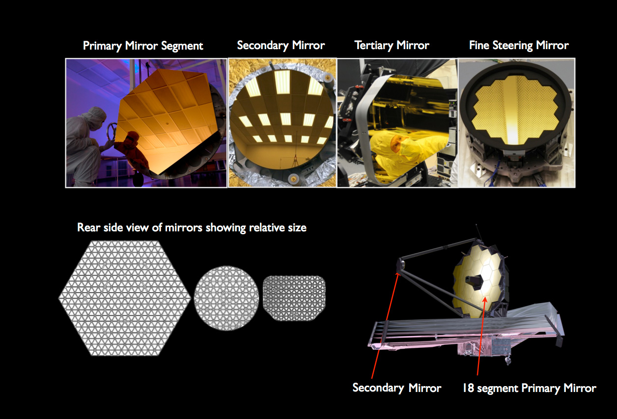 This image shows the four types of mirrors on the Webb telescope. From left to right are: a primary mirror segment, the secondary mirror, tertiary mirror and the fine steering mirror. The bottom right shows an artist's conception of the Webb telescope optics with its 18 primary mirror segments. On the bottom row are the three mirror segments shown on the same scale and seen from the rear to illustrate the honeycomb structure that makes this mirrors both very light and mechanically stiff.